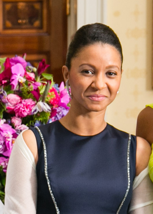 President Barack Obama and First Lady Michelle Obama greet His Excellency Yahya A.J.J. Jammeh, President of the Republic of The Gambia, and Mrs. Zineb Jammeh, in the Blue Room during a U.S.-Africa Leaders Summit dinner at the White House, Aug. 5, 2014. [Official White House Photo by Amanda Lucidon] This official White House photograph is in the public domain from a copyright perspective, so while restrictions such as personality or privacy rights may apply, in general, manipulations are allowed.